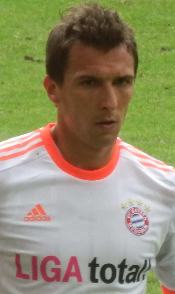 Mario Mandžukić (Liga total & champions league & DFB pokal)